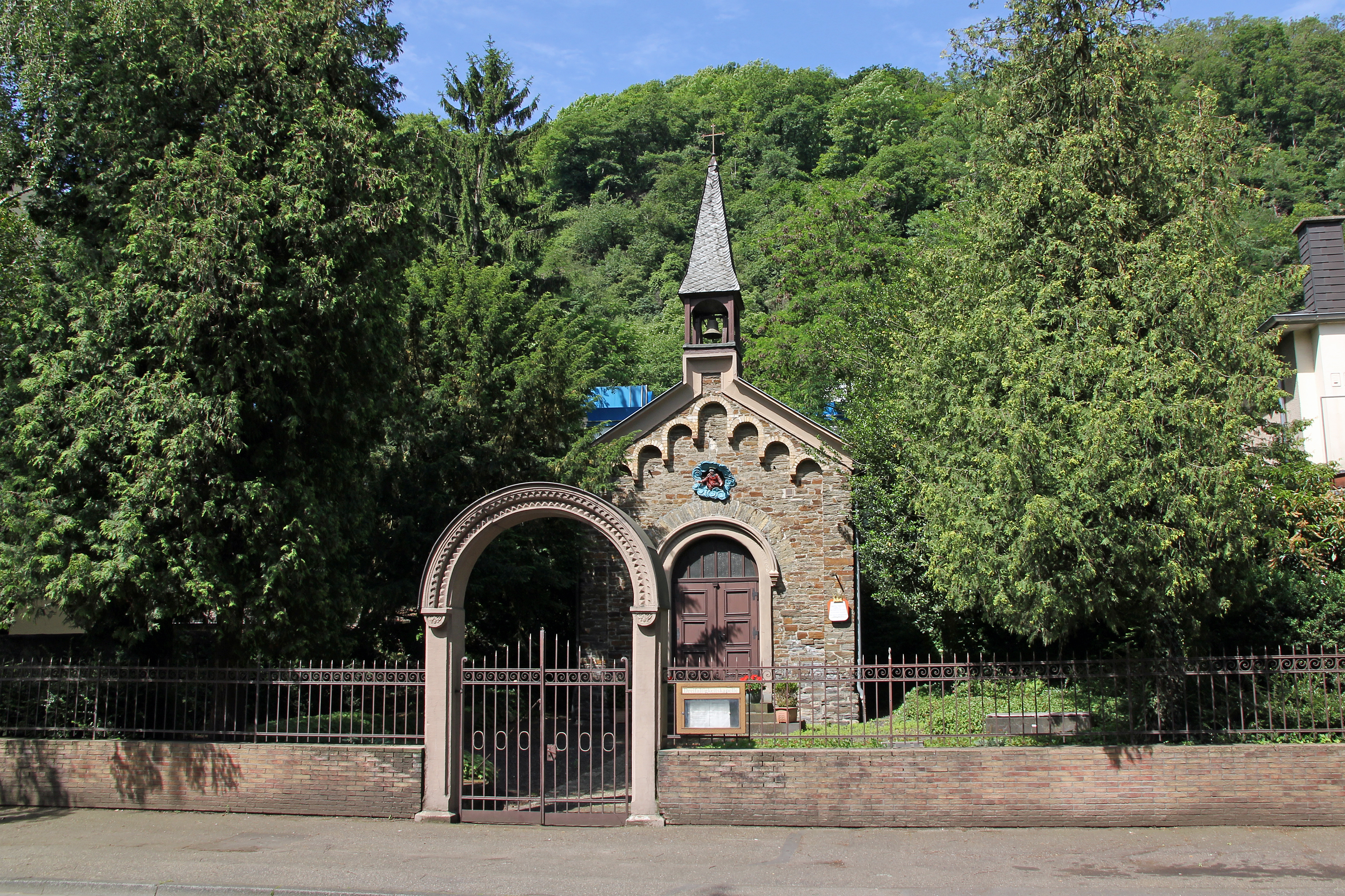 Trinity chapel in Koblenz